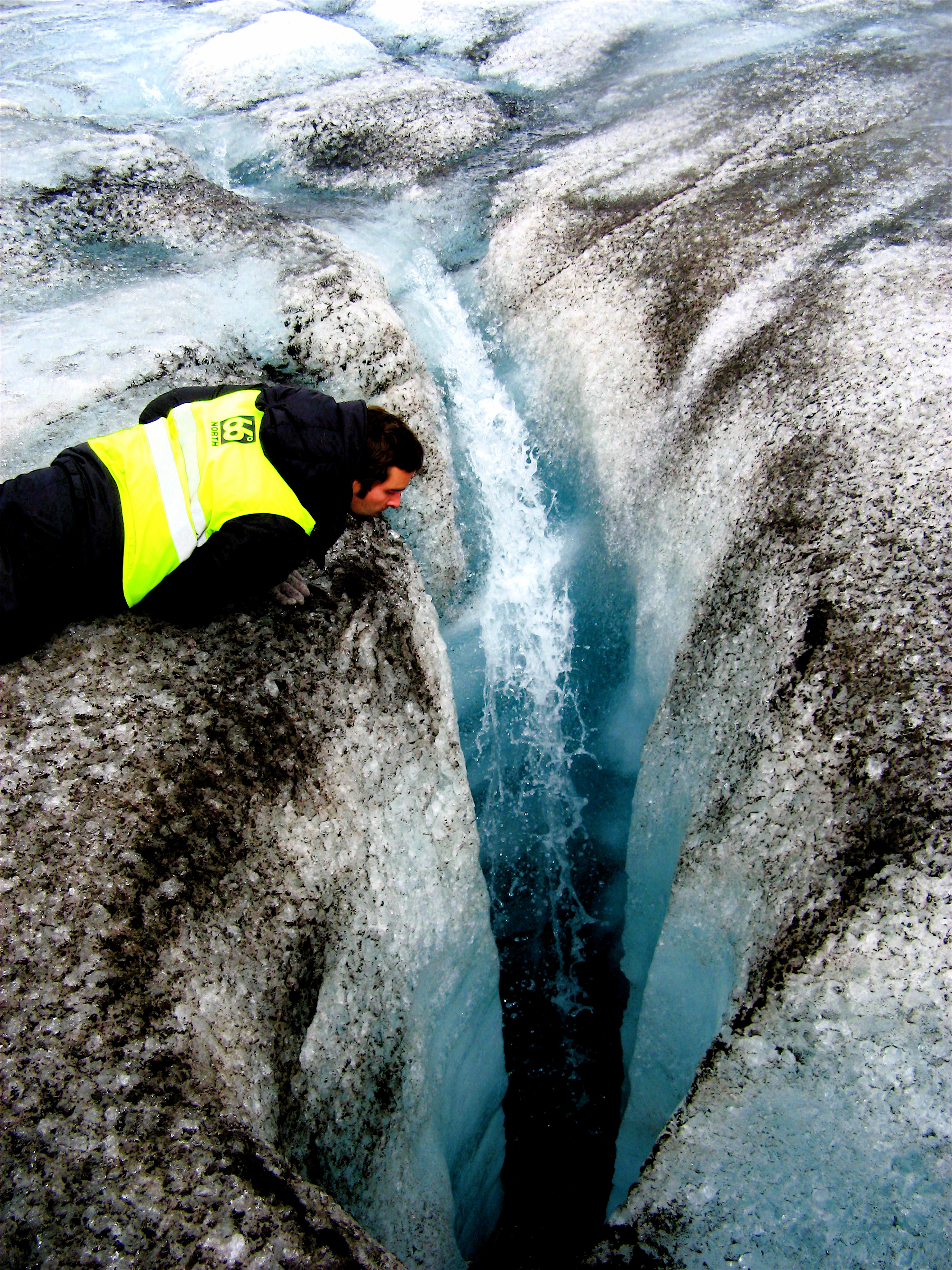 A crevasse created by water drilling a hole tens of meters deep into the glacier ice. Our skidoo guide inspects the crack. Langjökull glacier. July 2006.